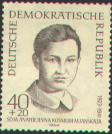 German post stamp dedicated to Zoya Kosmodemyanskaya.